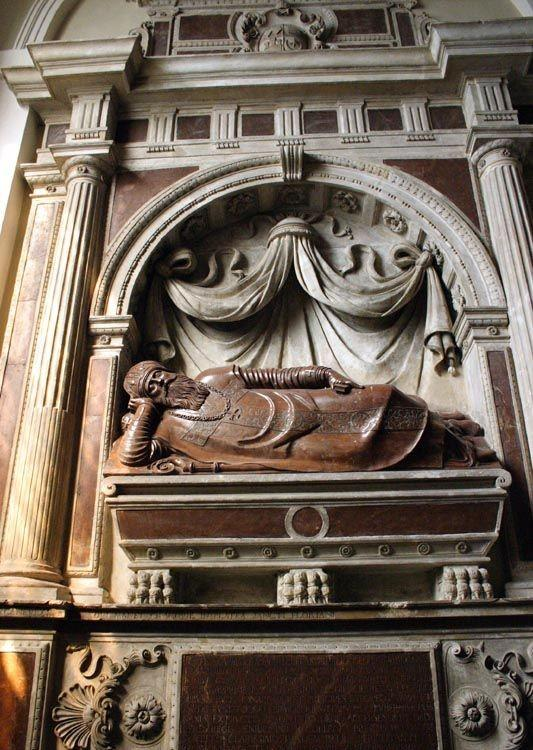 Tomb of bishop Konarski in the Poznań Cathedral (Hieronim Canavesi, 1575-1576).